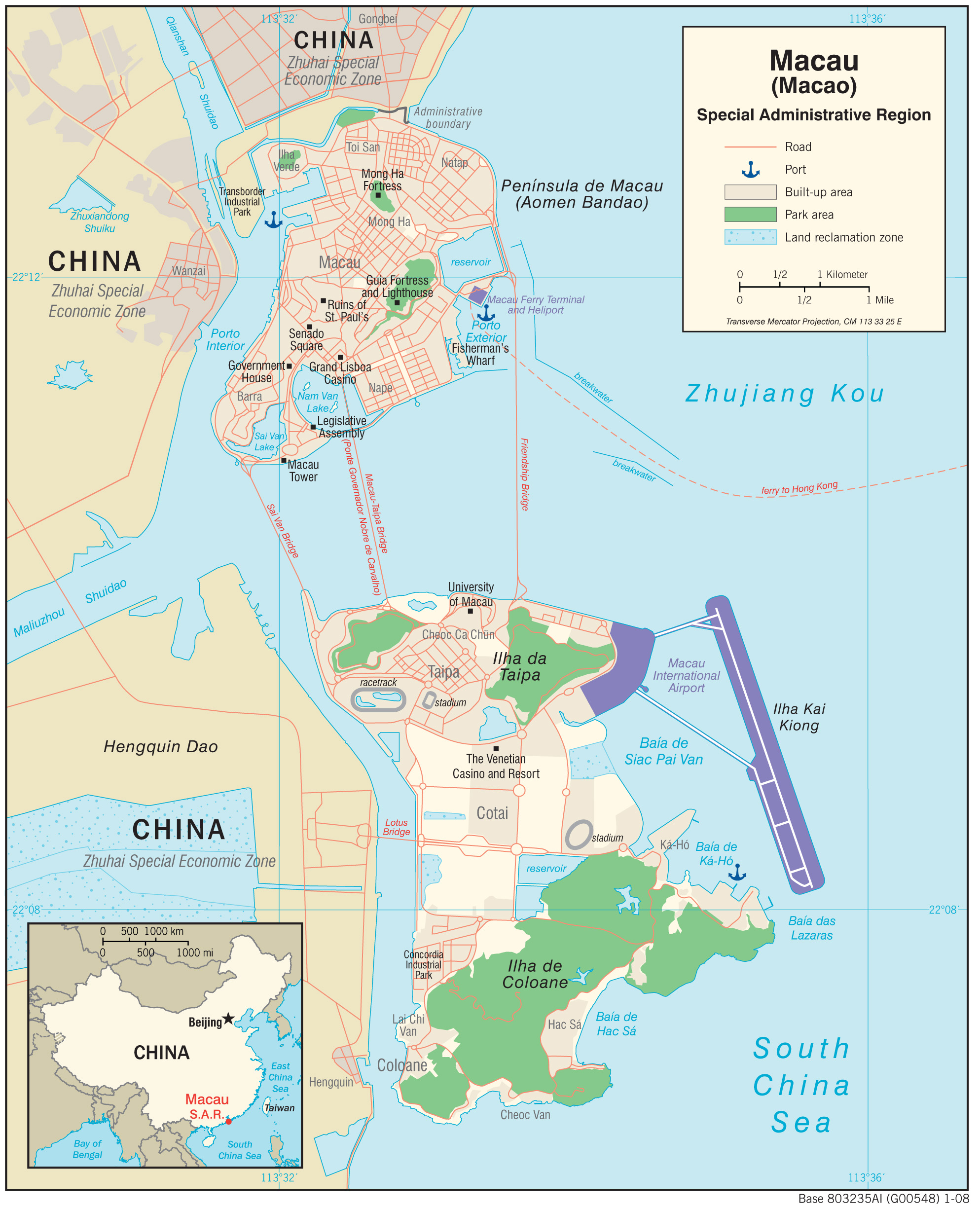 Transport system in Macau, 2008.